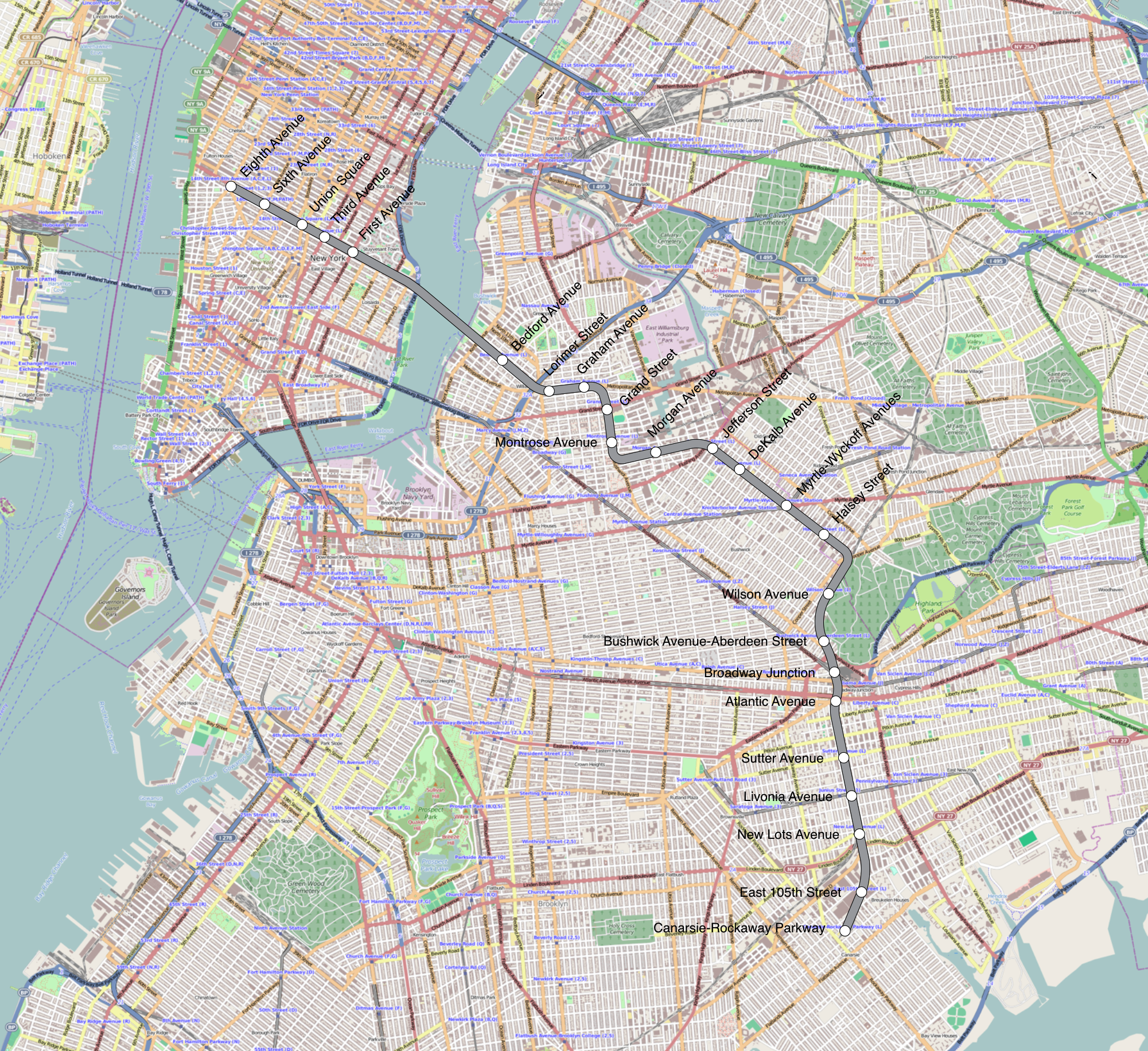 New York City Subway L service map